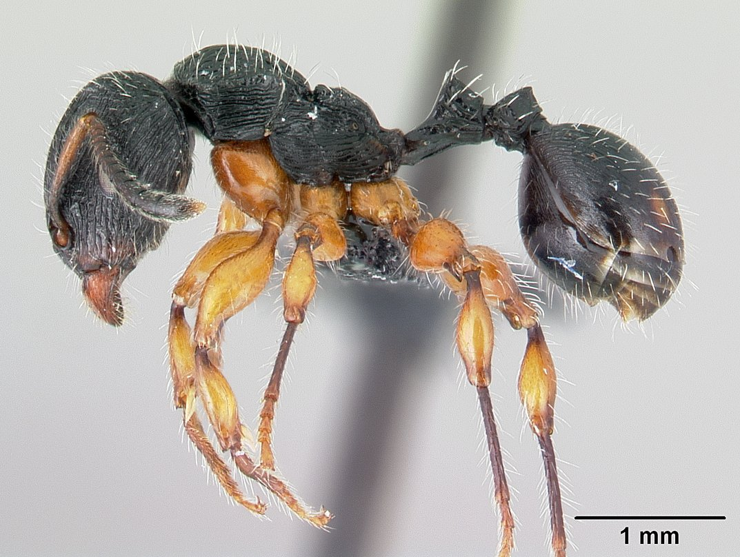 Profile view of ant Terataner rufipes specimen casent0446582.